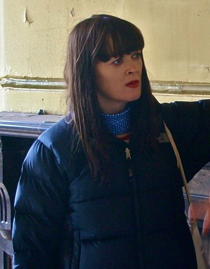 Bronagh in building at Ebrington Barracks